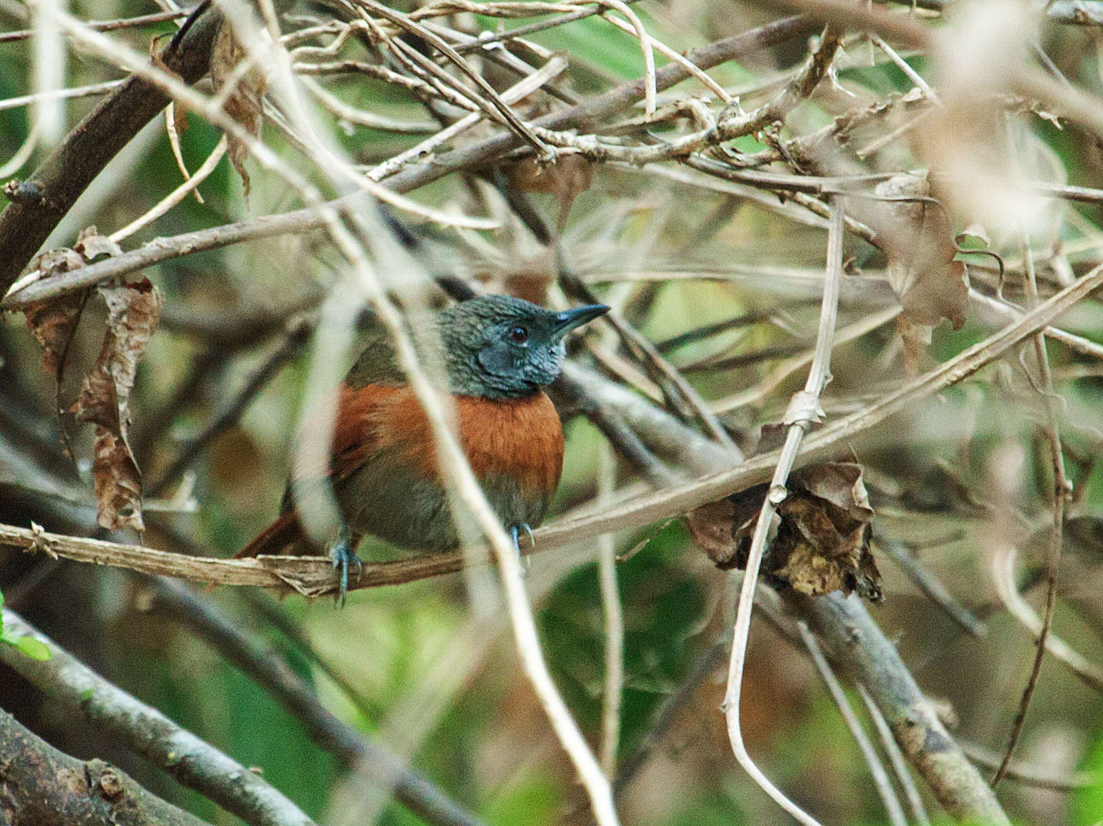 Rufous-breasted Spinetail from Mapastepec, Chiapas, Mexico.